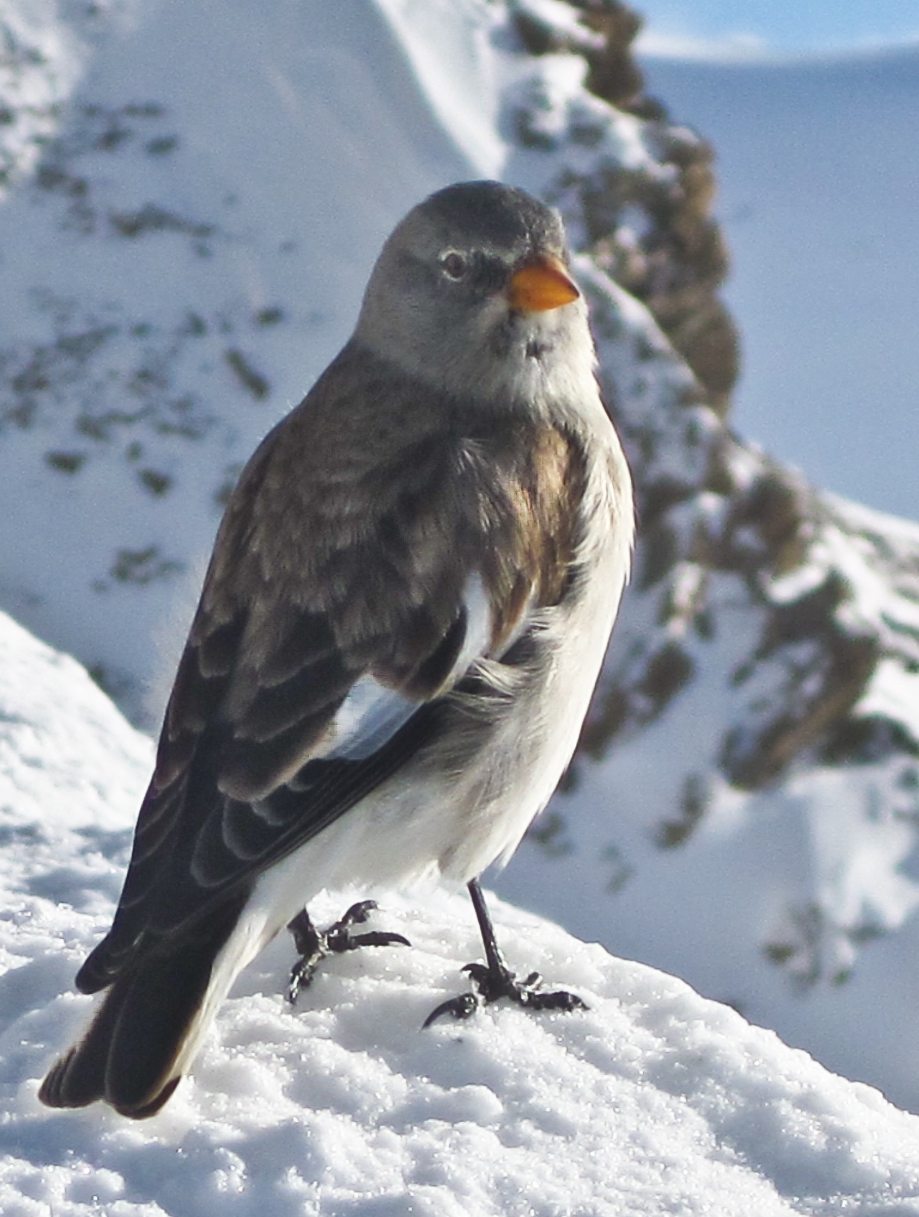 White-winged Snowfinch on Gornergrat in the Swiss Alps at about 10,000 ft ASL. Photographed in December 2009 - the bird is in winter colours including an orange beak.